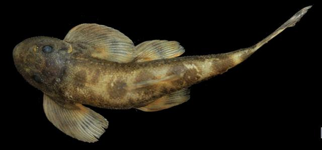 Thailand, RAESUP 001, 1 specimen, 31 mmSL, Yom Basin, Thailand, 26.II.2011, legit Sitthi Kulabtong, by Sitthi Kulabtong